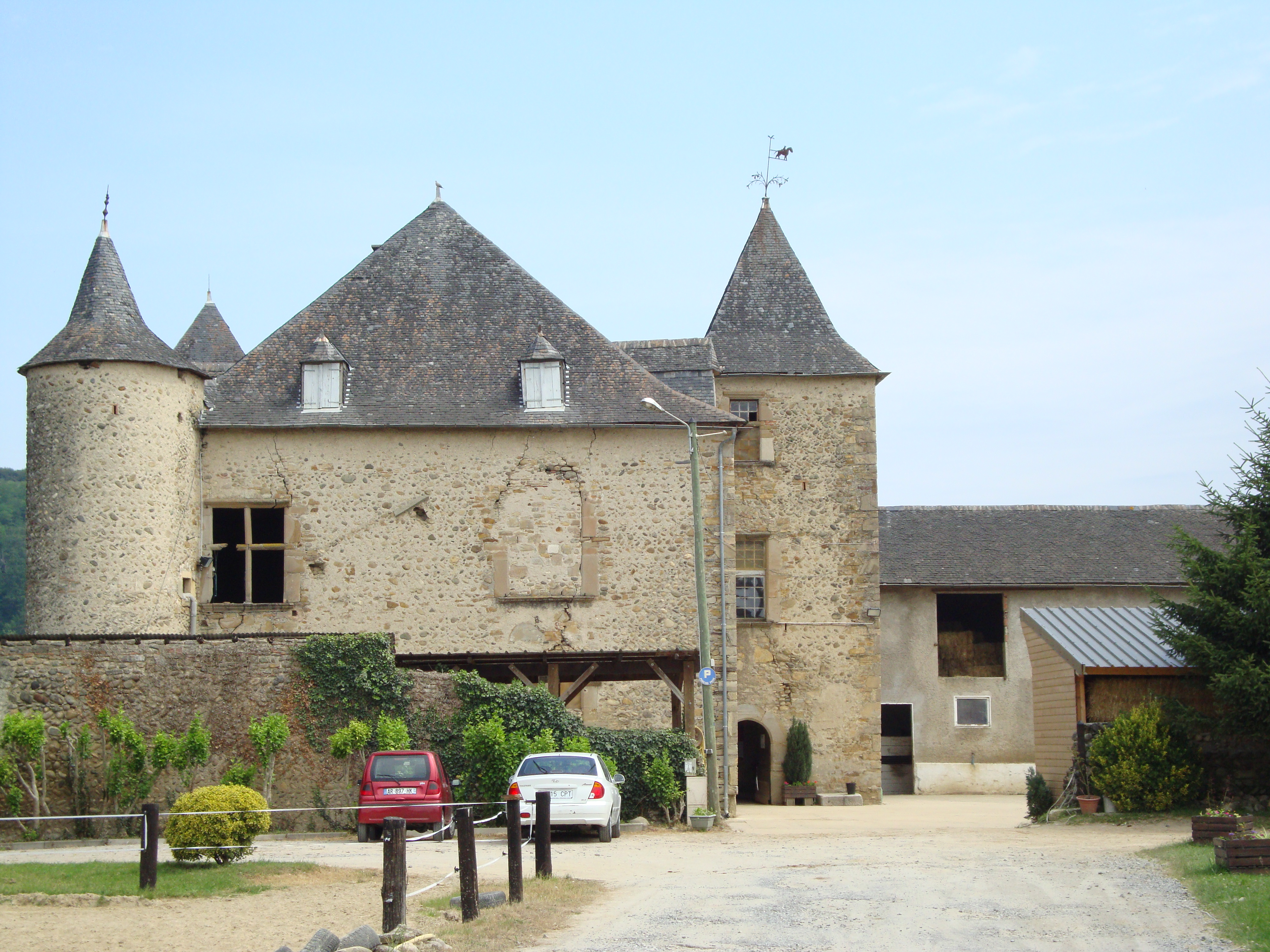 Goès (Pyr-Atl, Fr) castle. Construit au XVIè siècle, il a été remanié au XVIIè.